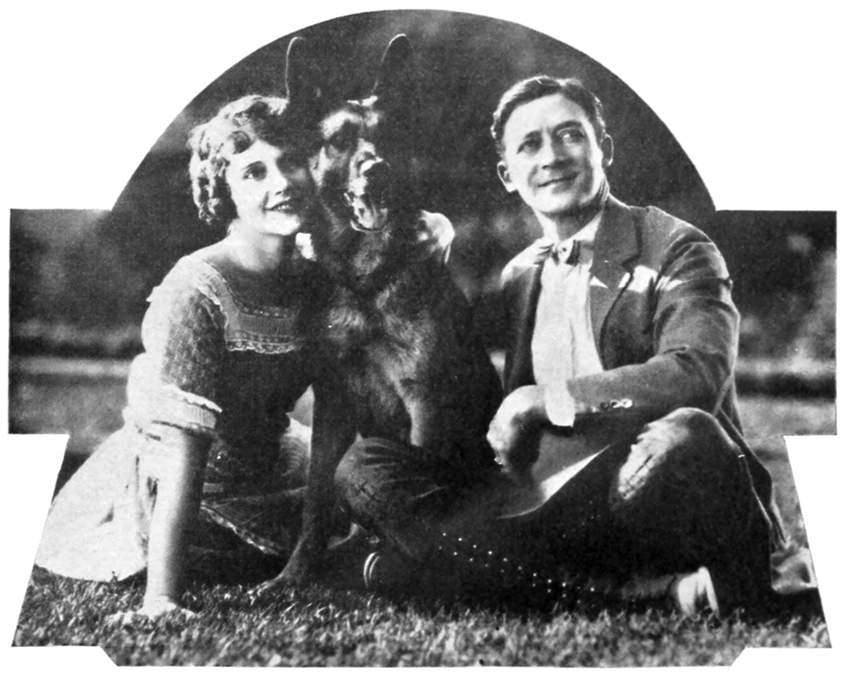 Photograph of the cast of the 1925 film White Fang Left to right: Ruth Dwyer, Strongheart, Theodore von Eltz